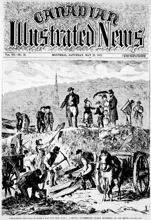 Unearthing of the Dead to Make a Way for the Living. A sketch on Cemetery Street (now Metcalfe Street, Montreal).